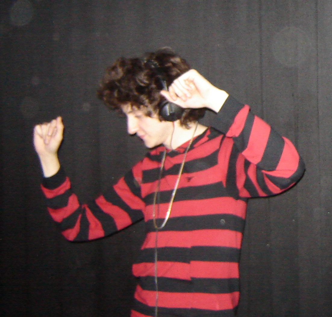 Photograph of the musician Toddla T